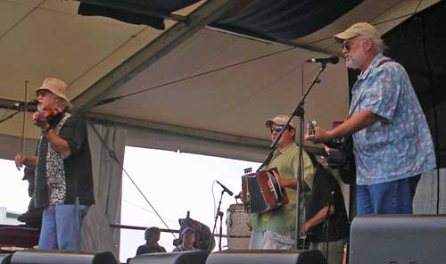 BeauSoleil at the New Orleans Jazz & Heritage Festival